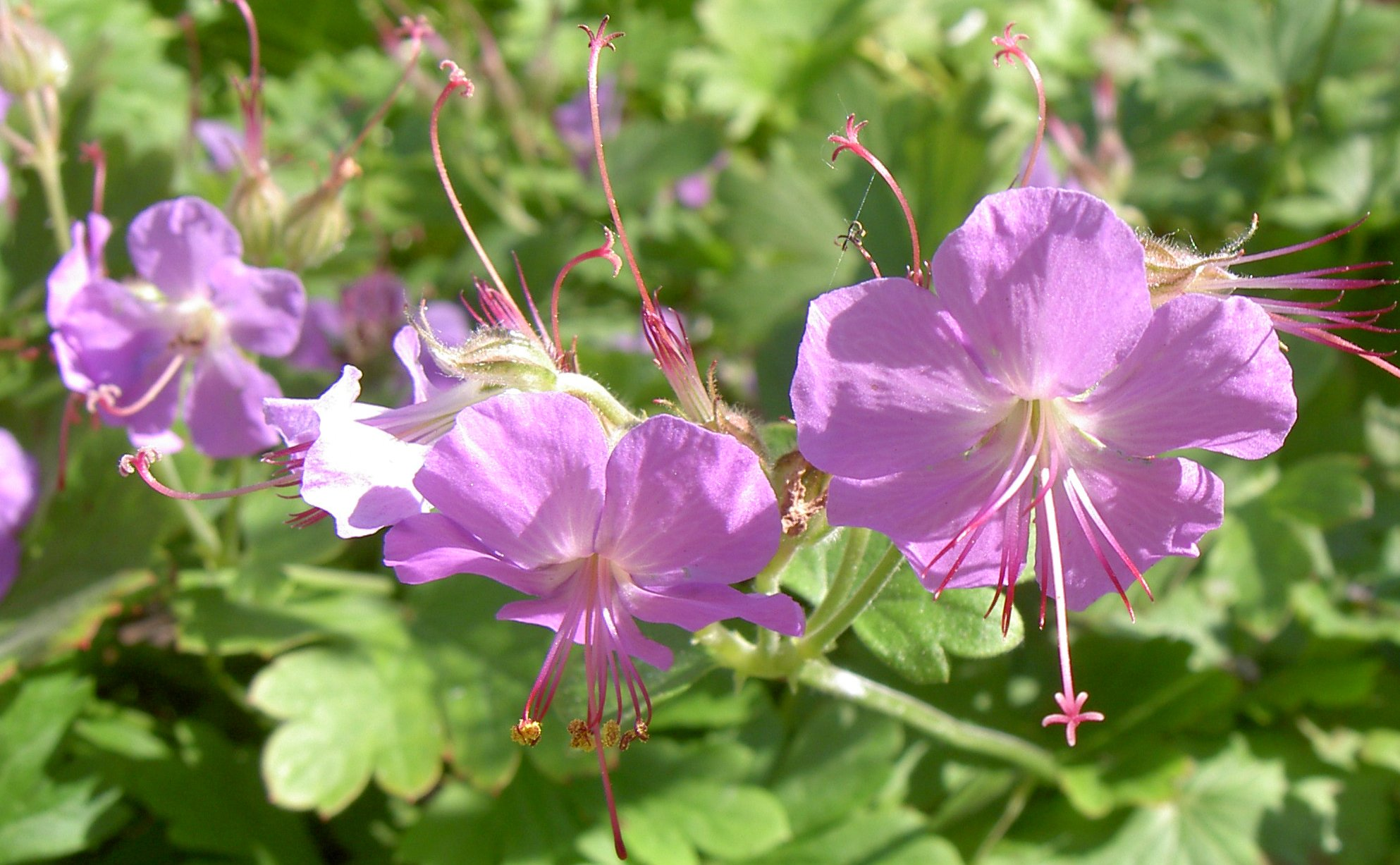 Geranium x cantabrigiense (pink form). Location: in the Hatanpää Arboretum, Tampere, Finland. Photographed by Teemu Mäki